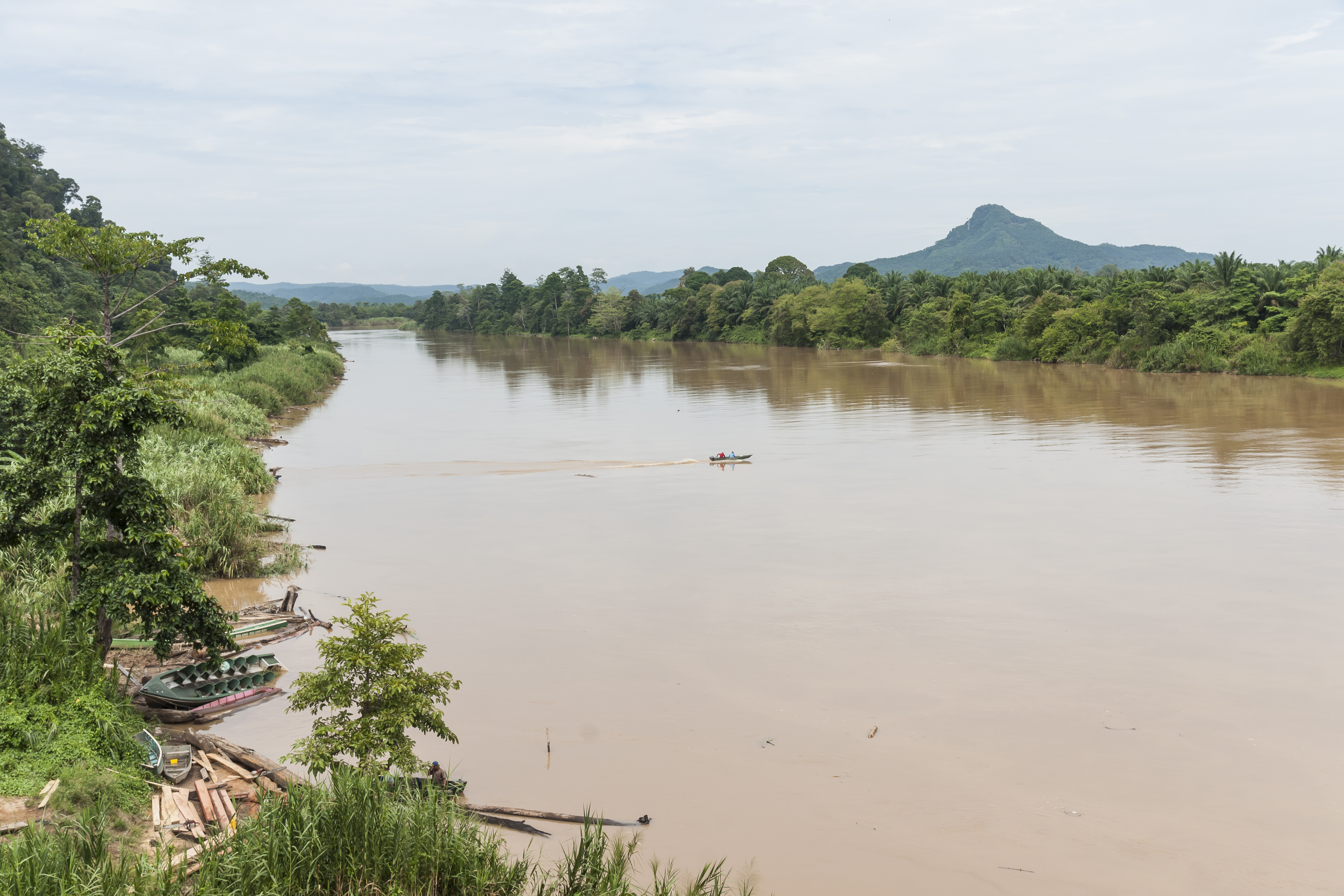 Kinabatangan, Sabah: Sungai Kinabatangan at the bridge near Batu Tulug